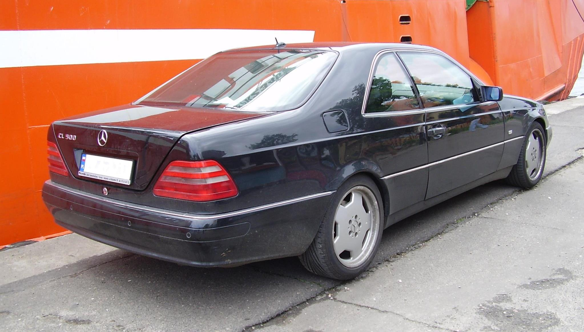 Mercedes-Benz C140 in Dziwnów (Poland)